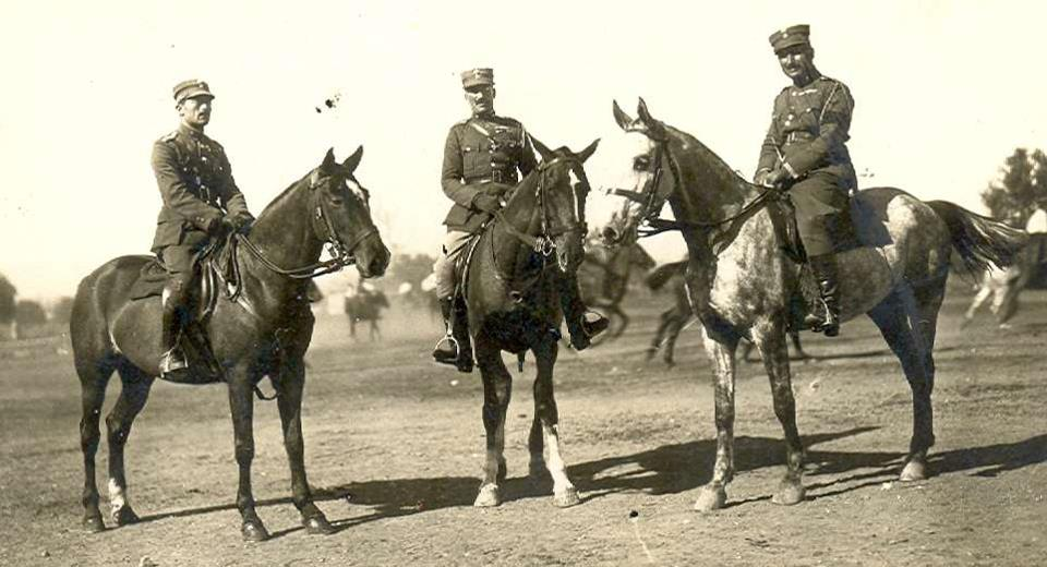 Greek cavalry officer Georgios Stanotas (center) in Manisa, Asia Minor. Photo of unknown author, latest 1922.